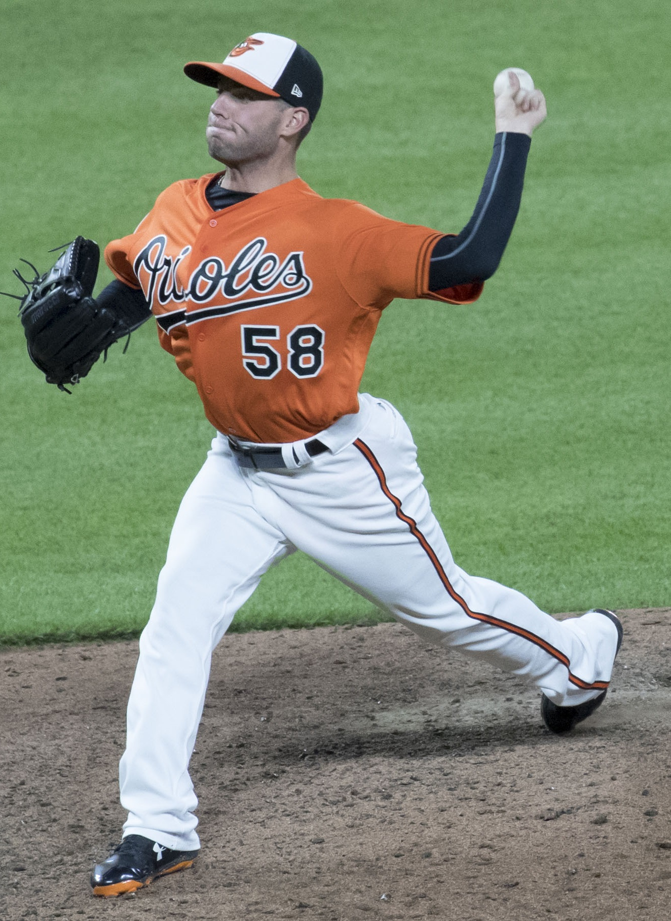 Cubs at Orioles 7/15/17